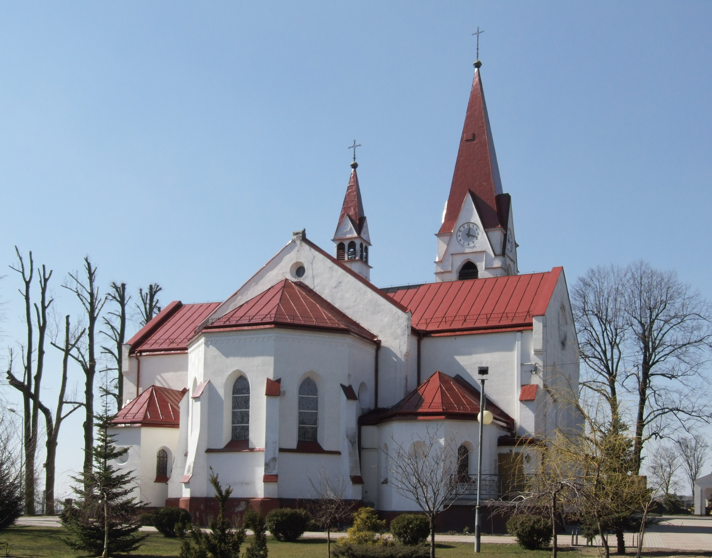 Our Lady Queen of the Rosary church in Łaziska Górne, Silesian Voivodeship Ślůnski: Kośćůł we Gůrnych Łaźiskach, na Gůrnym Ślůnsku